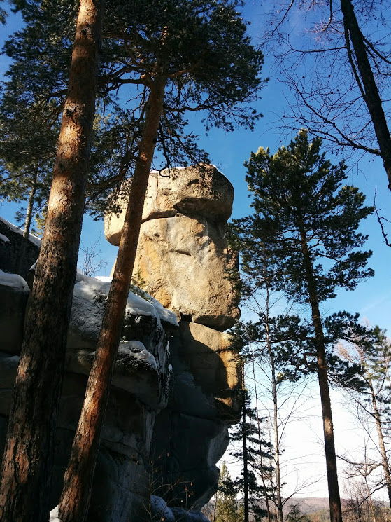 Skalnik Olhinskoe plateau